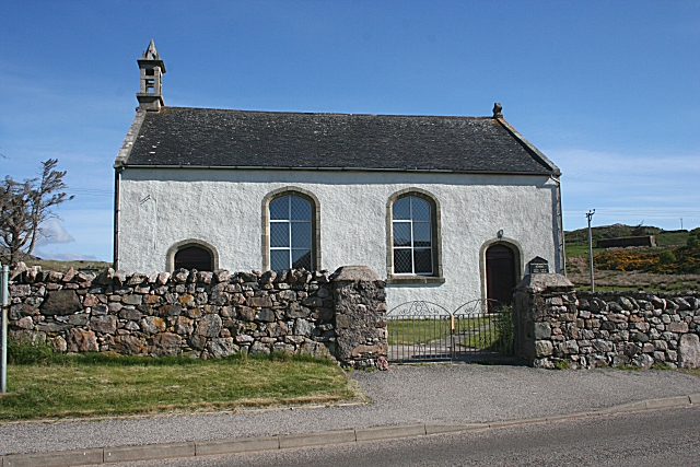 Free Presbyterian Kirk, Kinlochbervie, Scotland. This is one of the kirks built in the early 19th century to a standard design by Thomas Telford at the behest of Parliament to provide places of worship for people whose parish kirk was inconveniently distant or in a different village. Originally it was Church of Scotland.